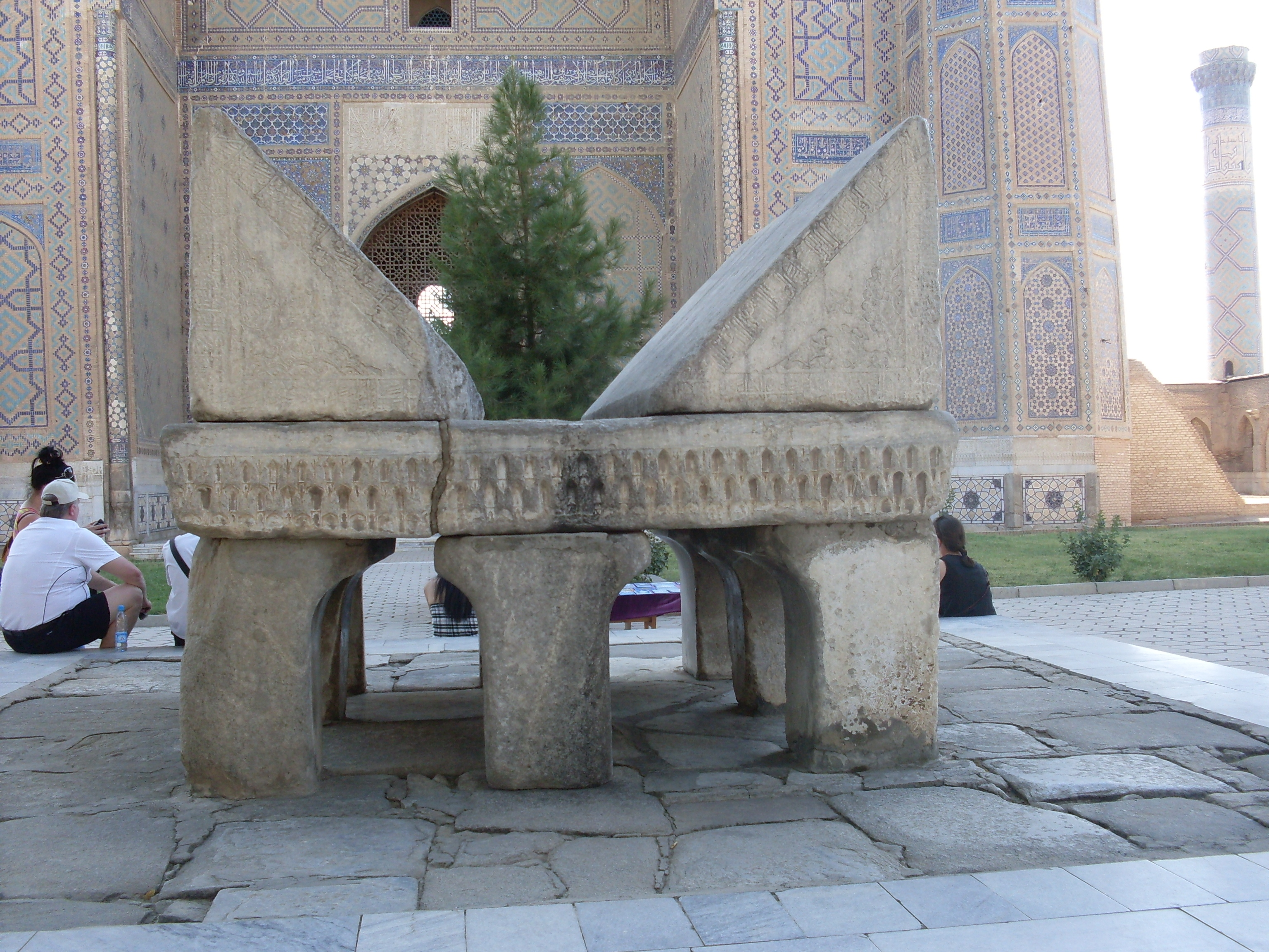 Mosque Bibi-Khanum pipitr